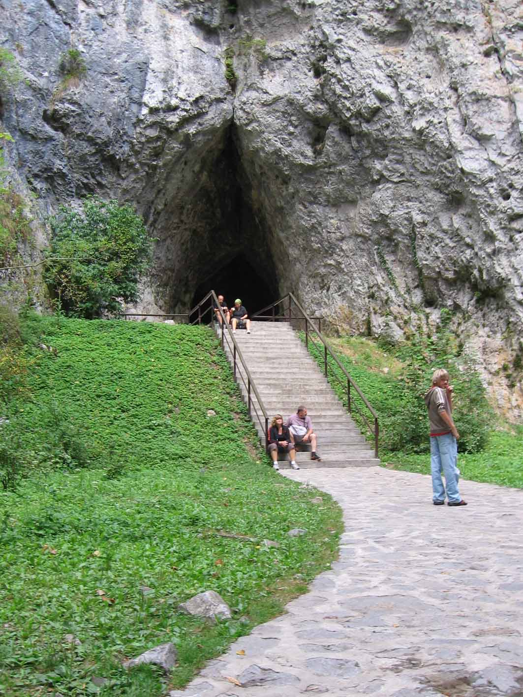 Entrance to Catherine Cave in Moravian Karst, Czech Republic.